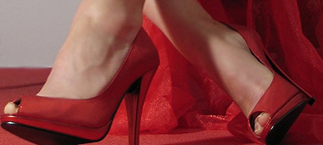 red peeptoe highheels with bare feet in here is the link to the Picture, the owner says ok for posting the picture gina-red.jpgof